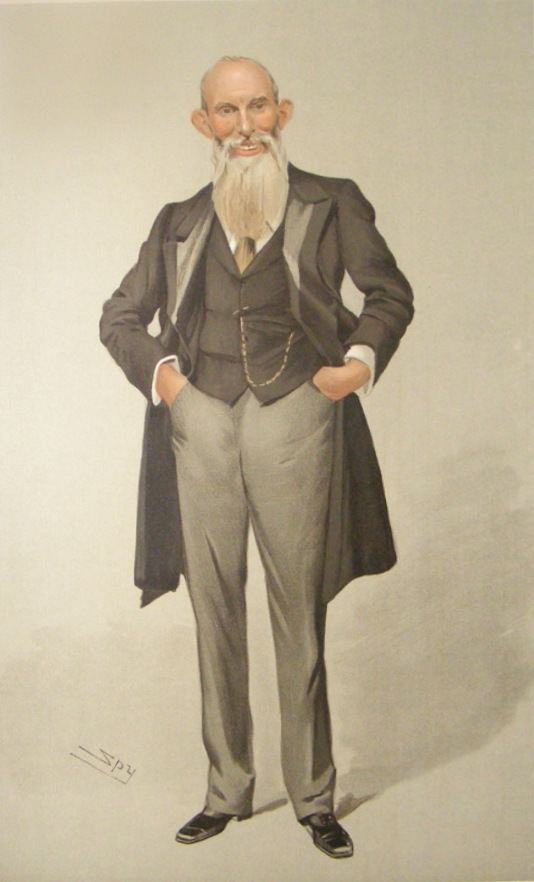 Men of the Day No.1040: Caricature of Mr SK Hocking. Caption reads: "Silas Hocking"